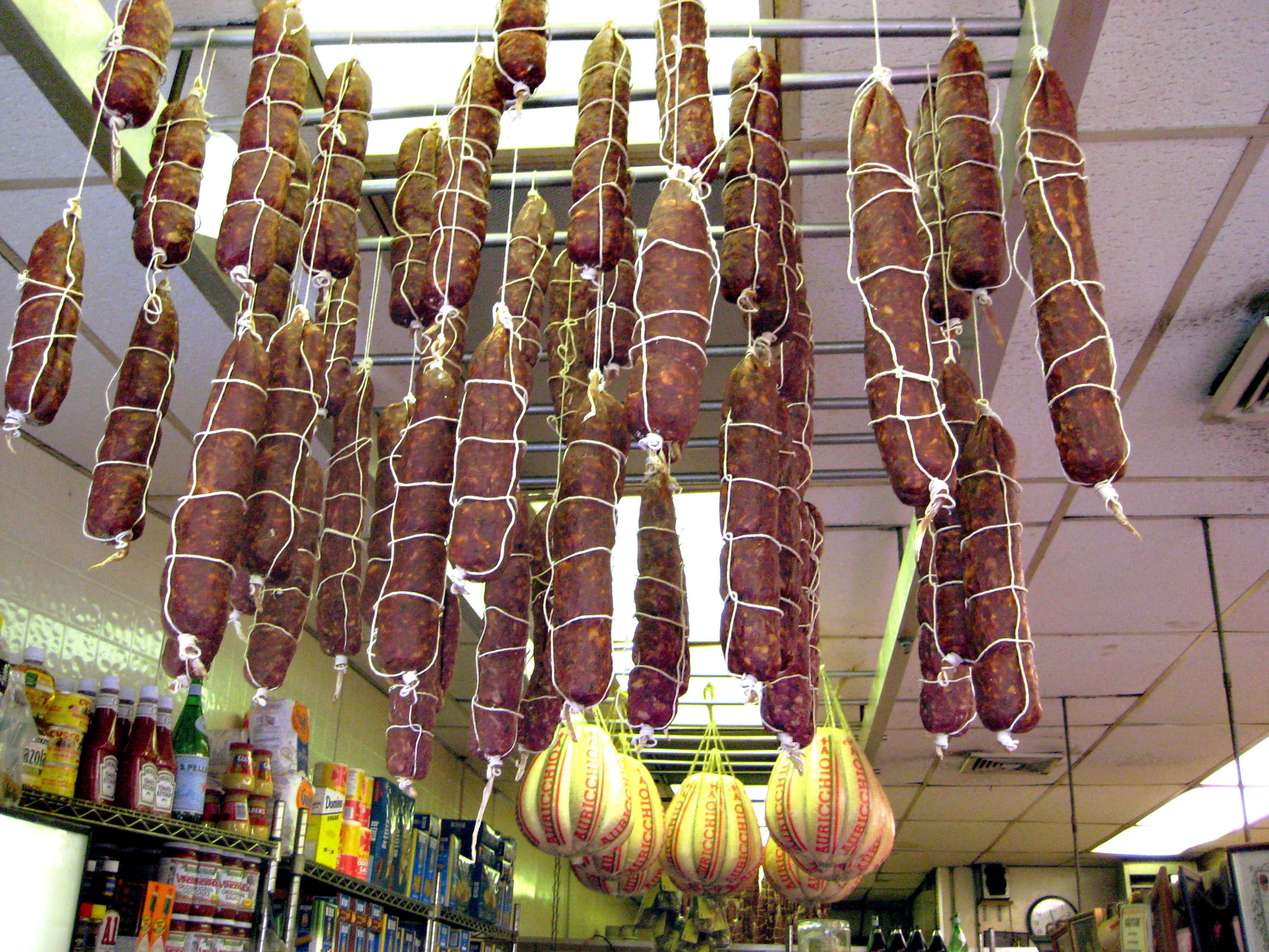 Home made sopressata curing at Esposito and Sons, Brooklyn, New York.